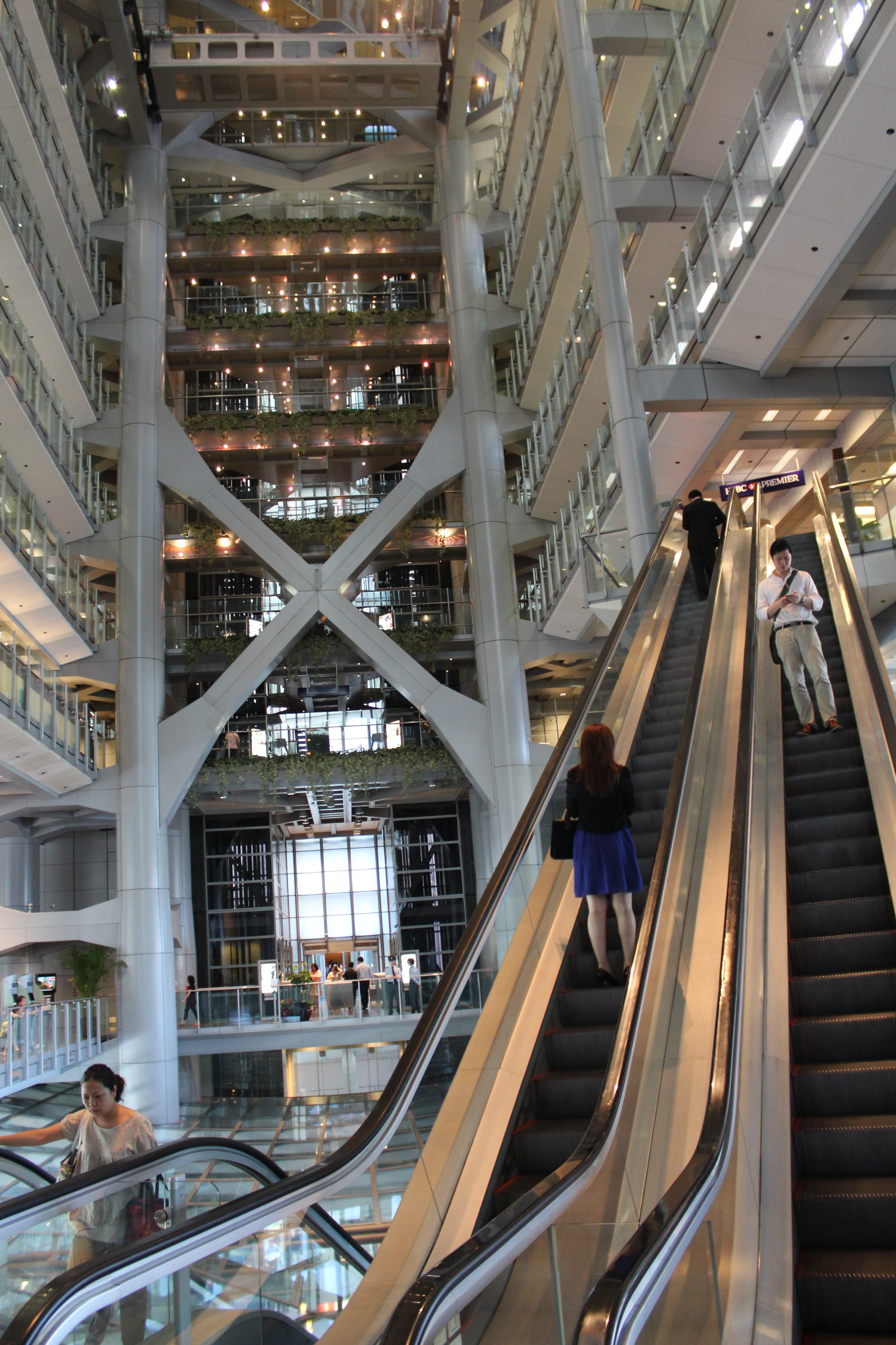 HSBC Hong Kong headquarters building, Hong Kong